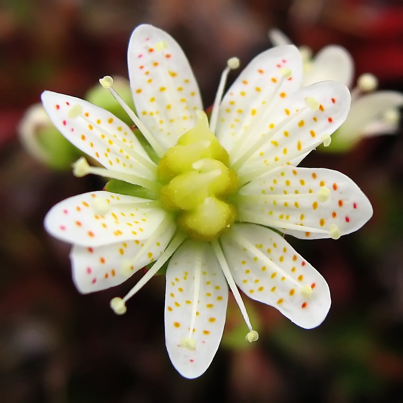 Flower of three toothed saxifrage (Saxifraga tricuspidata) observed in rubble near the communication antenna in Upernavik, Greenland. Denoised with NoiseWare.